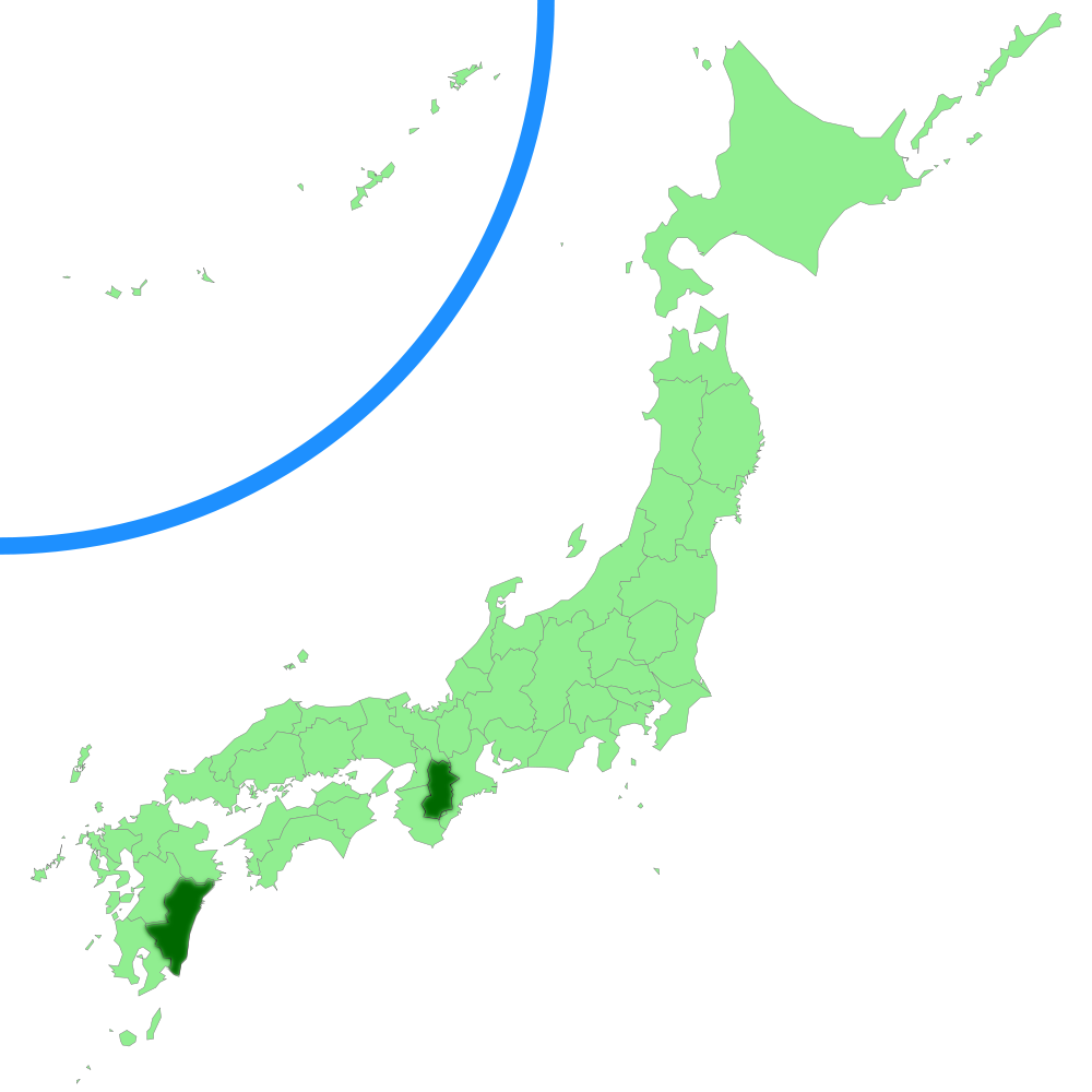 Distribution of the fungus Chorioactis geaster in Japan.